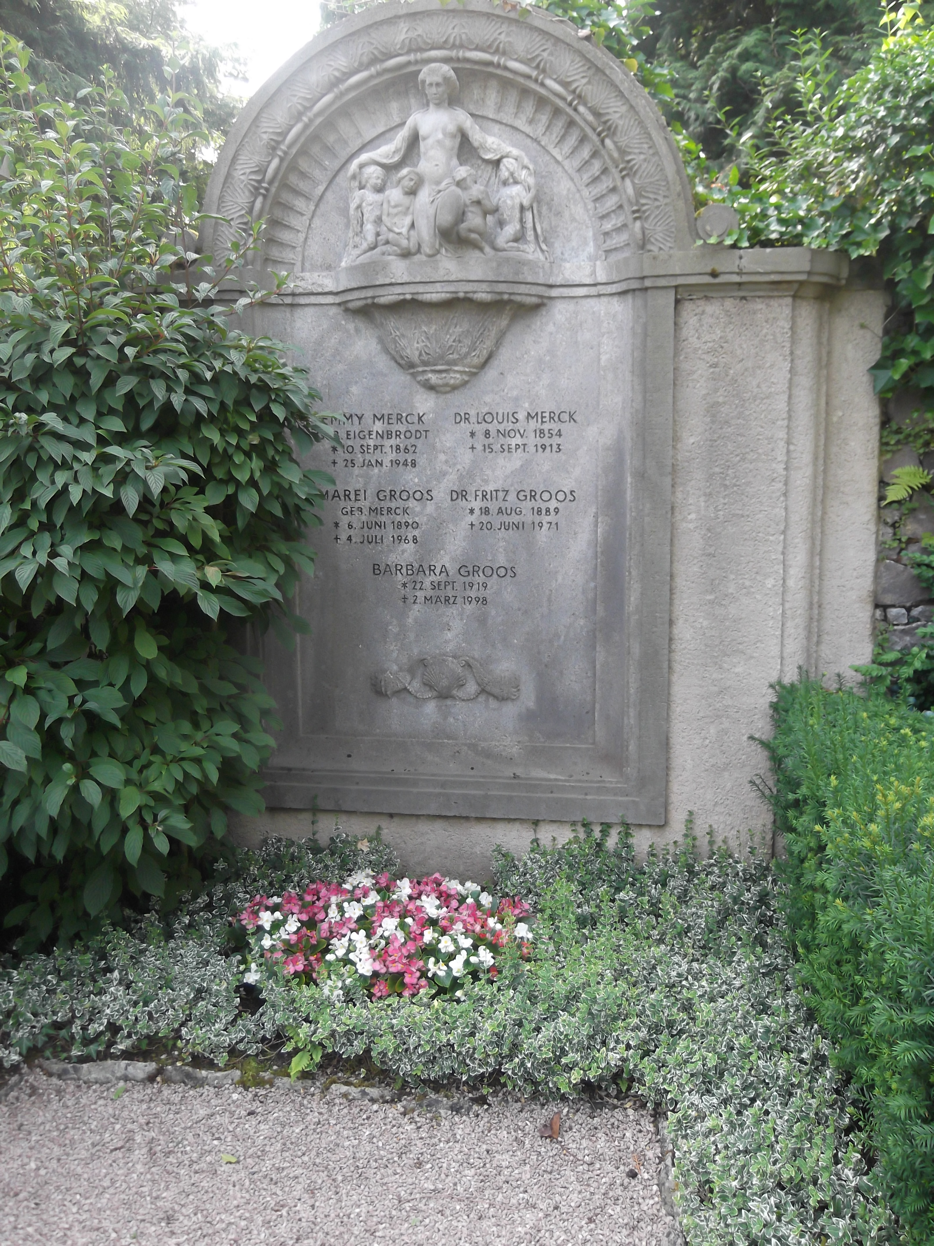 Tomb of Louis Merck in the "Alter Friedhof" in Darmstadt (Germany)